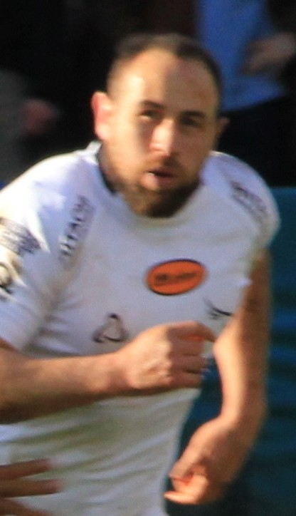 Tom Casson about to pass the ball 2013-14 English Premiership Harlequins vs Falcons